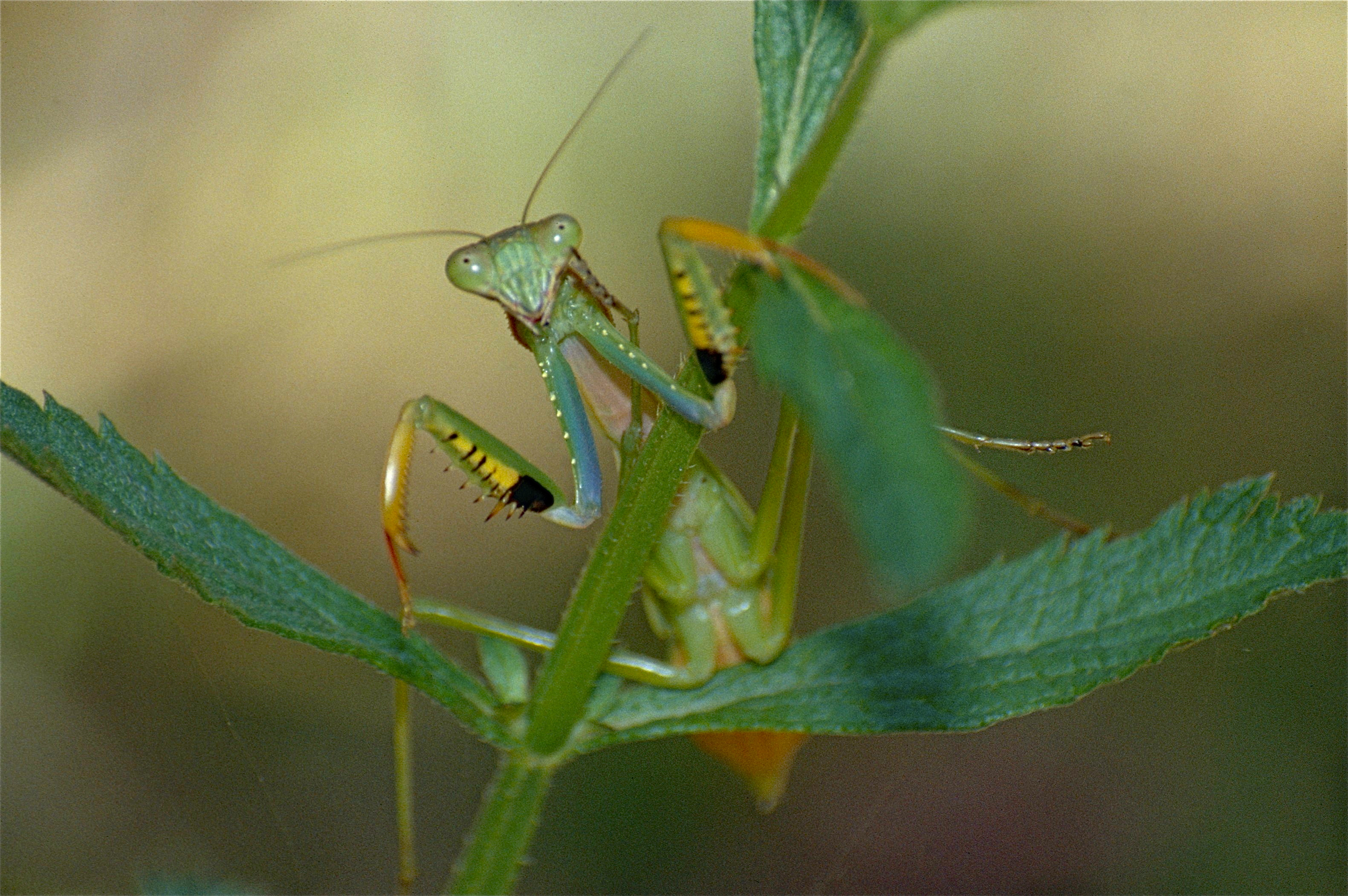 Mantadia Reserve, Perinet, MADAGASCAR Scanned Slide from 1998